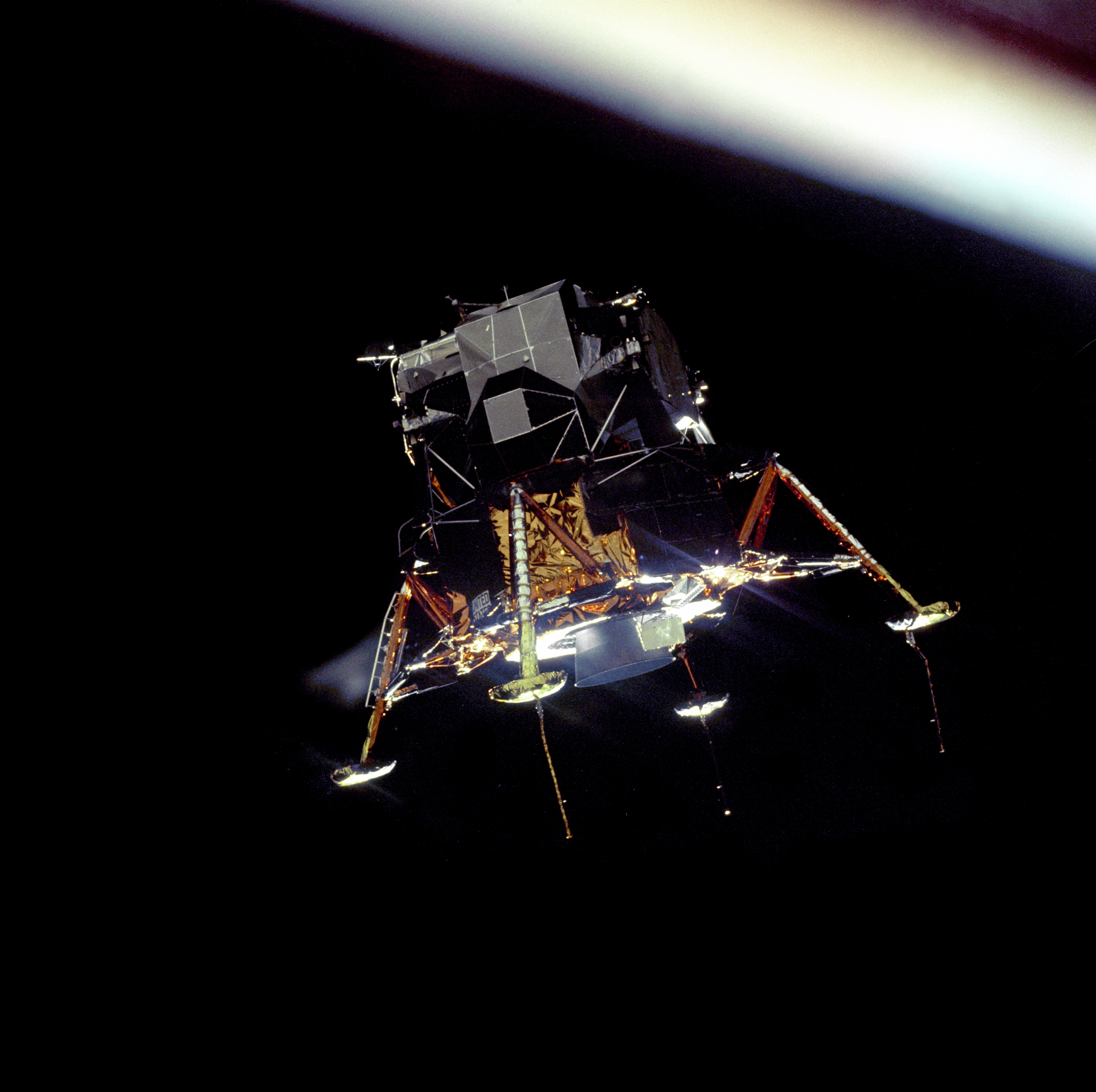 The Apollo 11 Lunar Module (LM) "Eagle", in a landing configuration is photographed in lunar orbit from the Command and Service Modules (CSM) "Columbia". Inside the LM were Commander, Neil A. Armstrong, and Lunar Module Pilot Edwin E. "Buzz" Aldrin Jr. The long "rod-like" protrusions under the landing pods are lunar surface sensing probes. Upon contact with the lunar surface, the probes send a signal to the crew to shut down the descent engine.